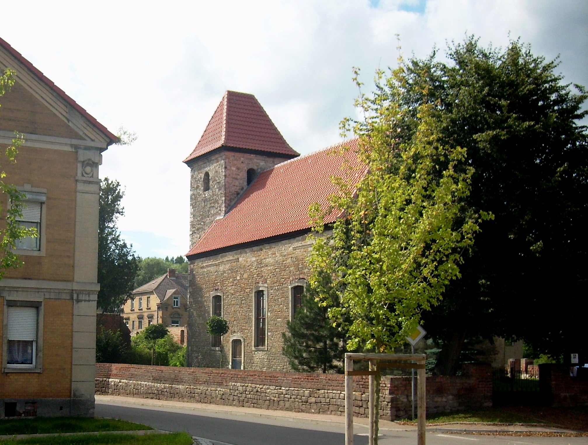 Zöllschen church in the Tollwitz district of Bad Dürrenberg (district of Saalekreis, Saxony-Anhalt)